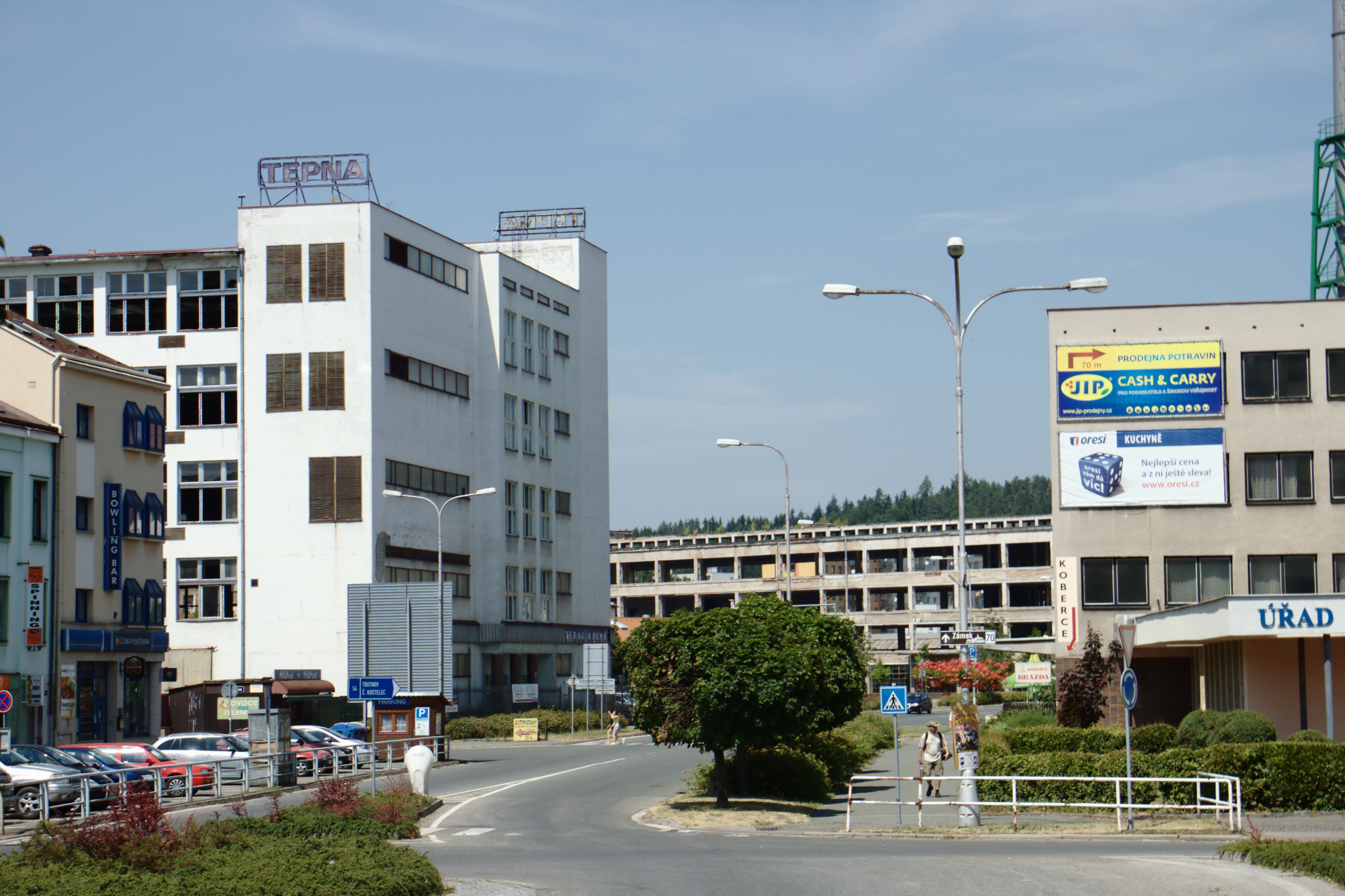 Buildings in the vicinity of the main train station in Náchod, CZ